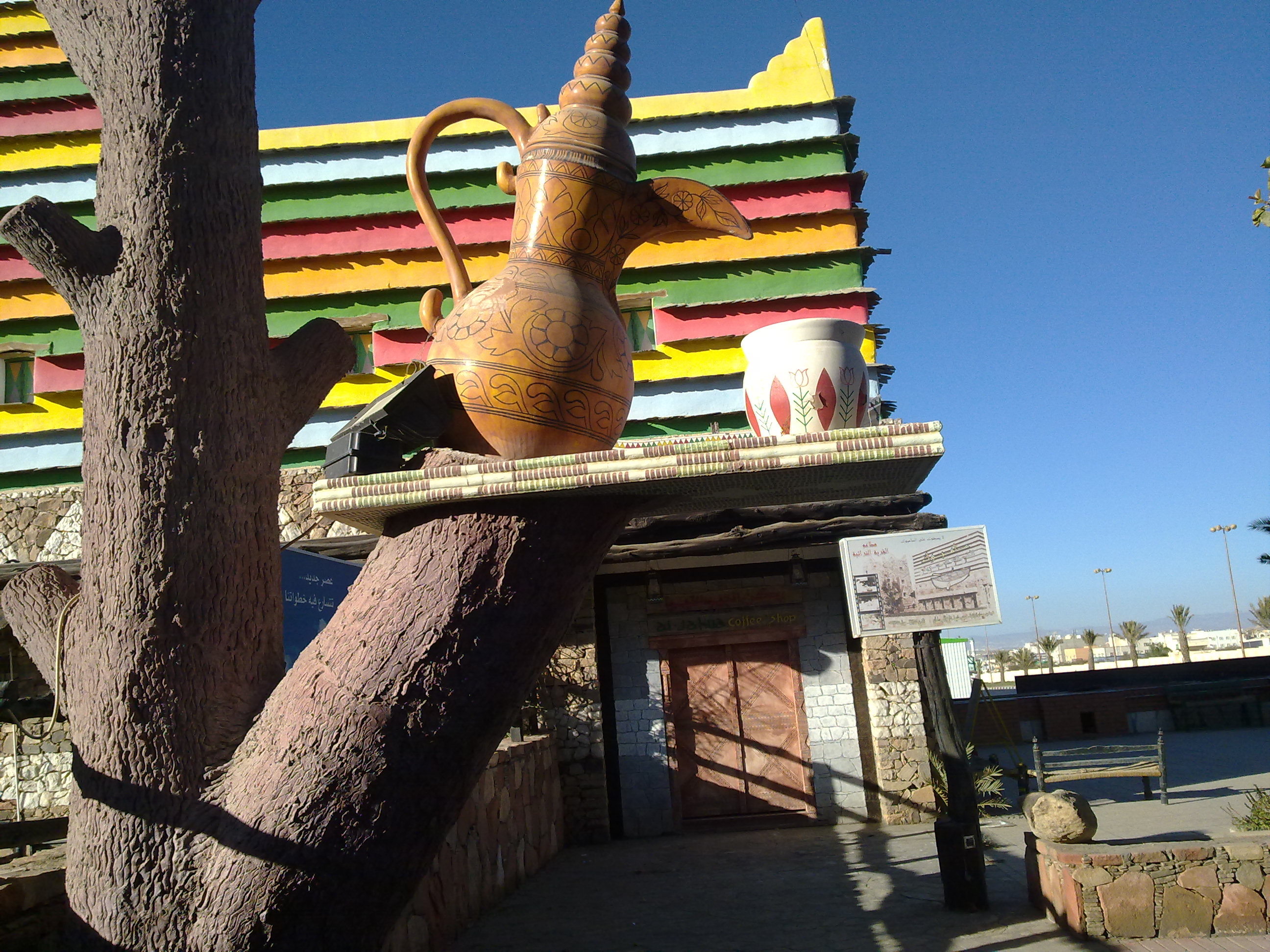 Statue of Arabic coffee, This image was taken from the area heritage In the city of Khamis Mushayt